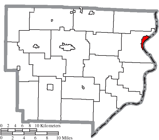 Map of the municipal and township boundaries of Monroe County, Ohio, United States, as of the 2000 census, with the location of the village of Clarington highlighted. Township borders are shown only in unincorporated areas in order to differentiate incorporated and unincorporated areas more clearly.